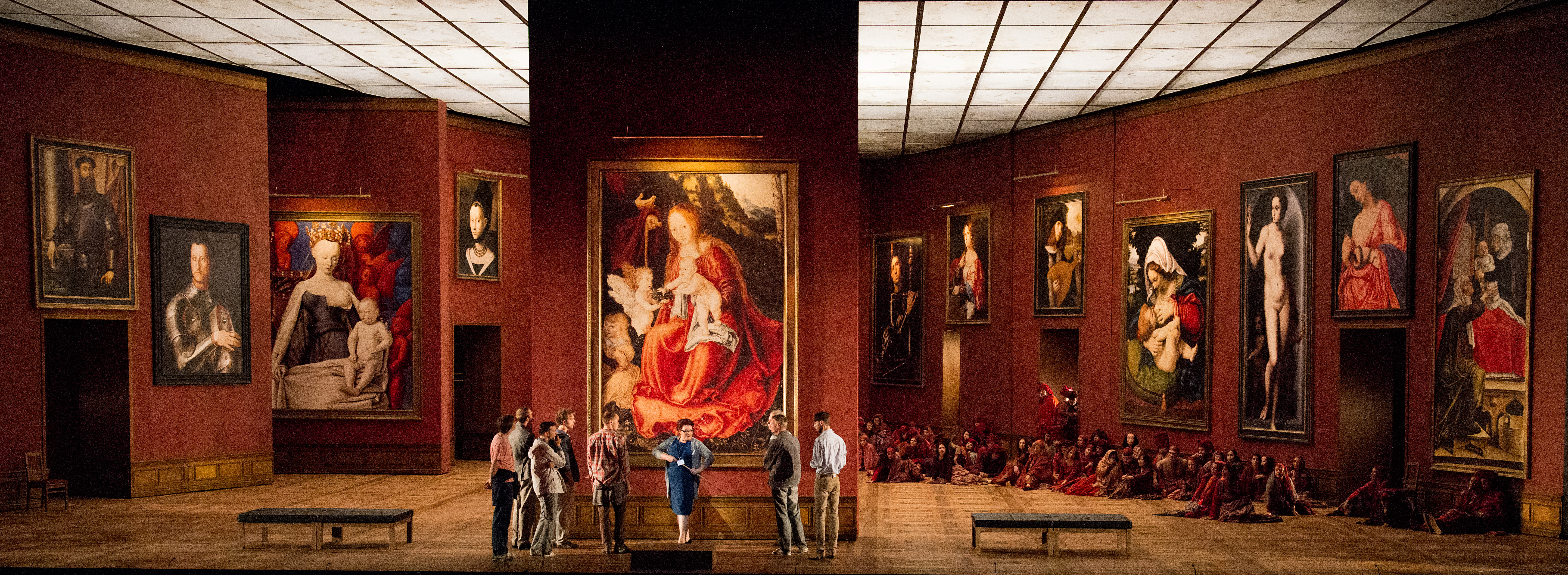 Il trovatore, with Marie-Nicole Lemieux and Chorus, Salzburg Festival 2014